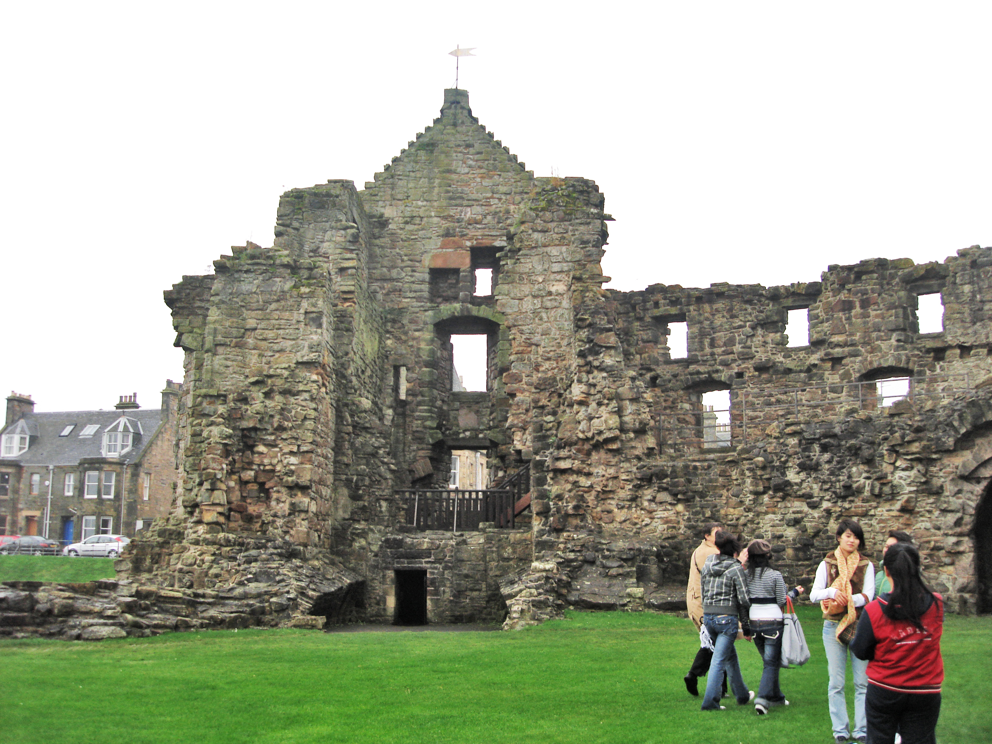 Front Gate of St Andrews Castle